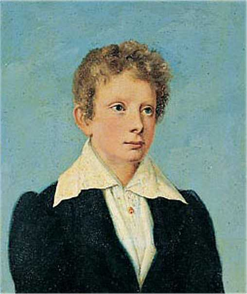 Guglielmo and Albertina Montenuovo, children to Marie-Louise of Austria, Duchess of Parma and Adam Albert Neipperg.